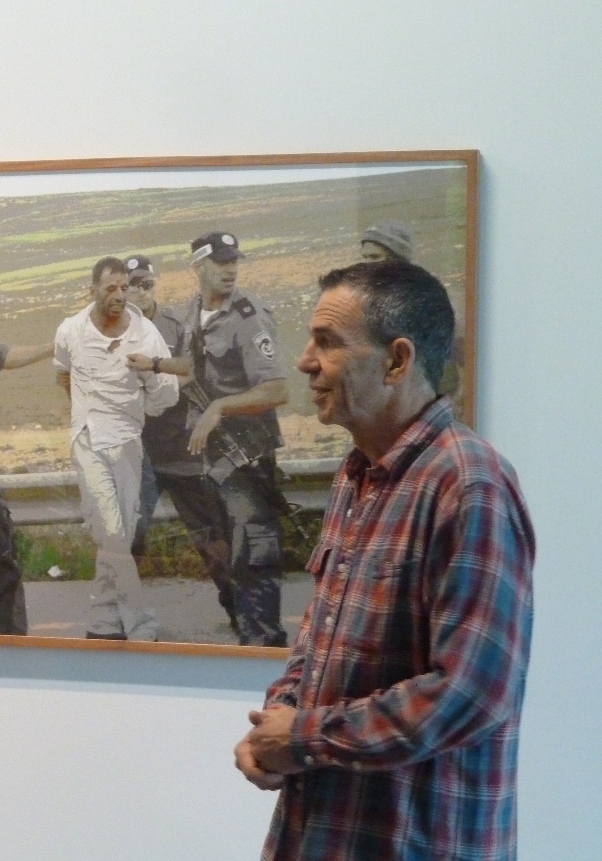 Oded Yeda'ya